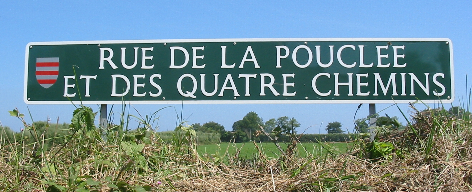 Road name sign of Rue de la Pouclée et des Quatre Chemins, longest road name in Jersey Photo taken by Man vyi with Canon PowerShot A40 on 15/7/2005